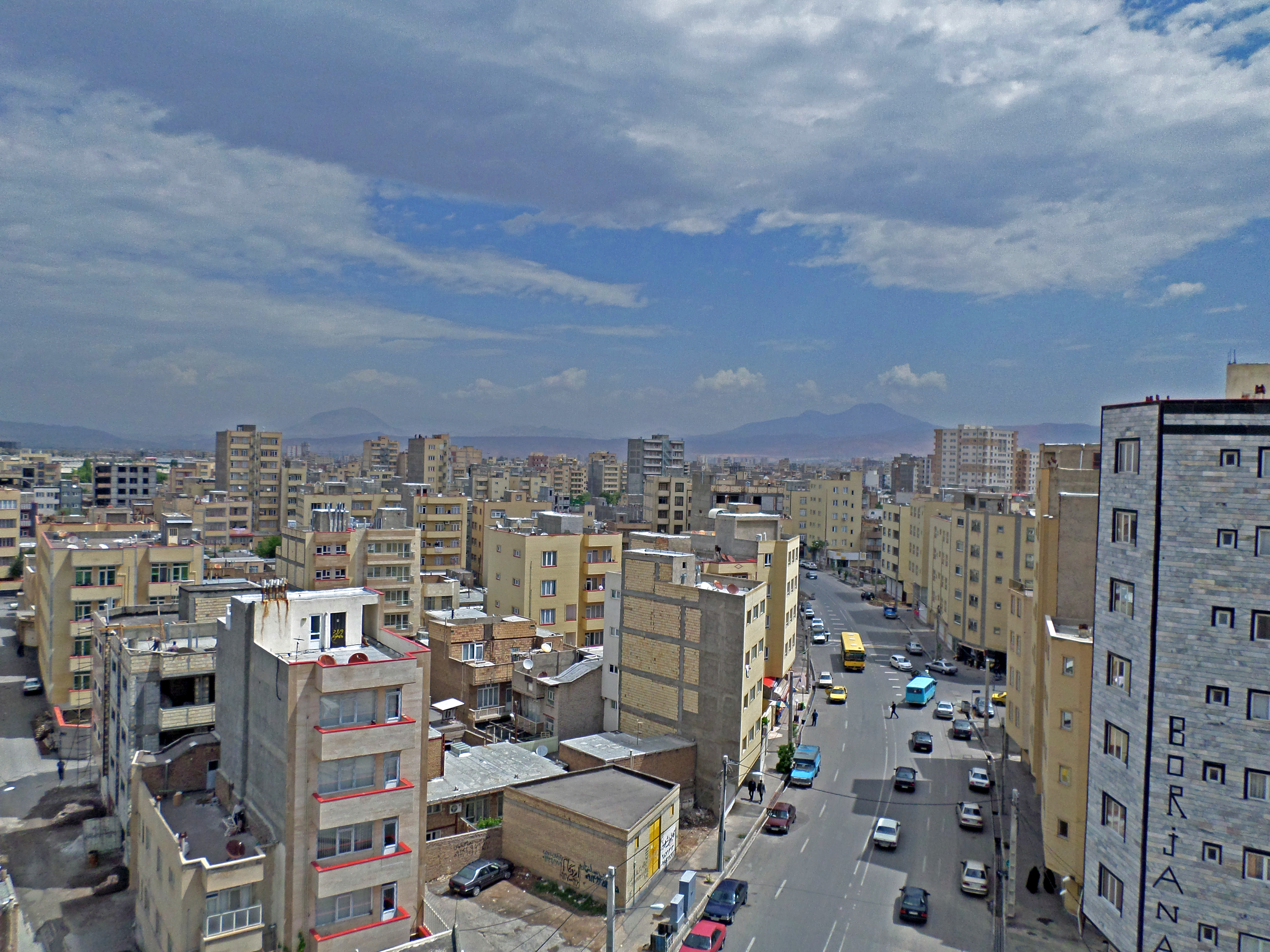 A picture of the northern part of modern Shanbeghazan. Photographer : Mehran B. GhazaniAzərbaycanca: Günümüzdəki Şamqazan’ın quzey bölümündən bir şəkil.